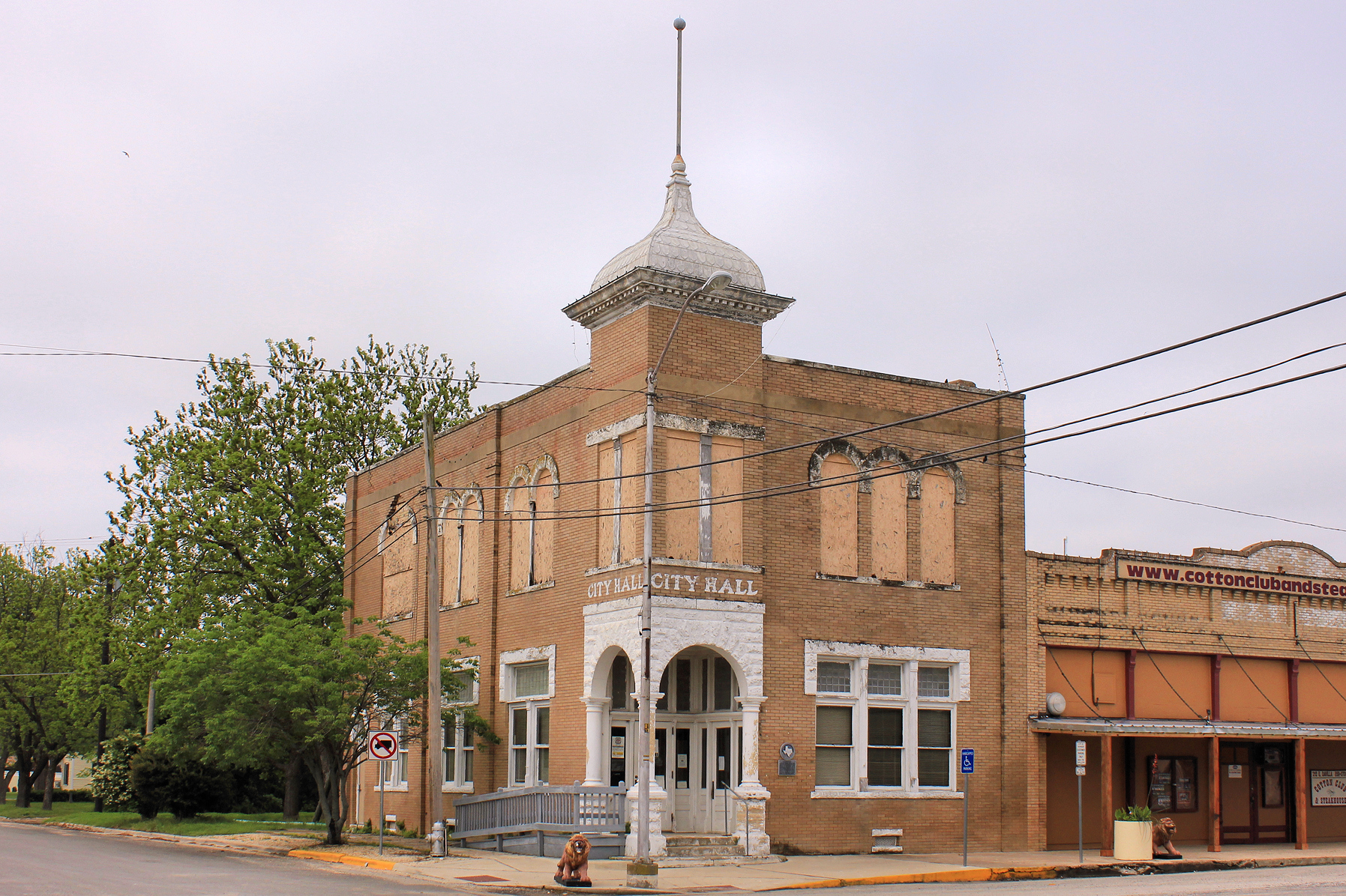 The former city hall in Granger, Texas, United States. The building was originally the Farmers State Bank when it was built in 1909. It became Granger City Hall in 1929. The building was designated a Recorded Texas Historic Landmark in 1994.